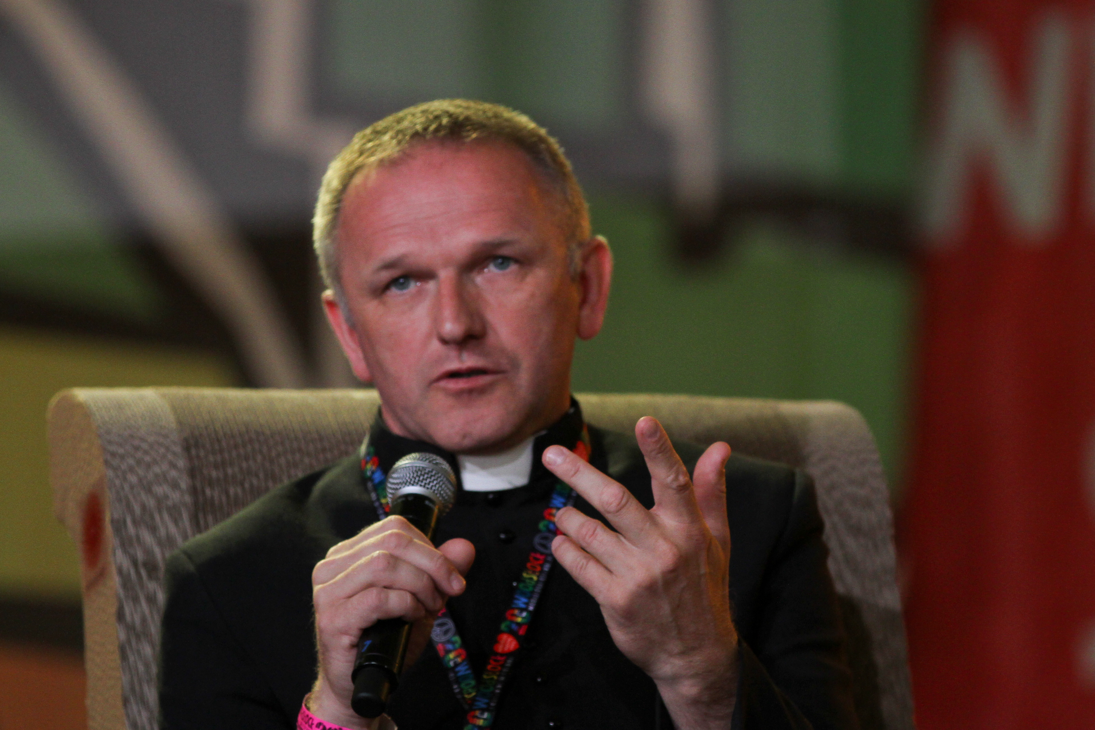 Przystanek Woodstock 2014.